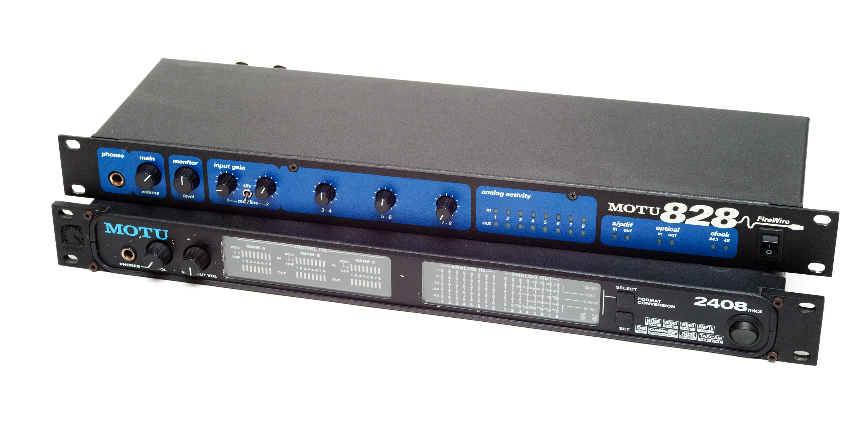 A pair of MOTU audio interfaces